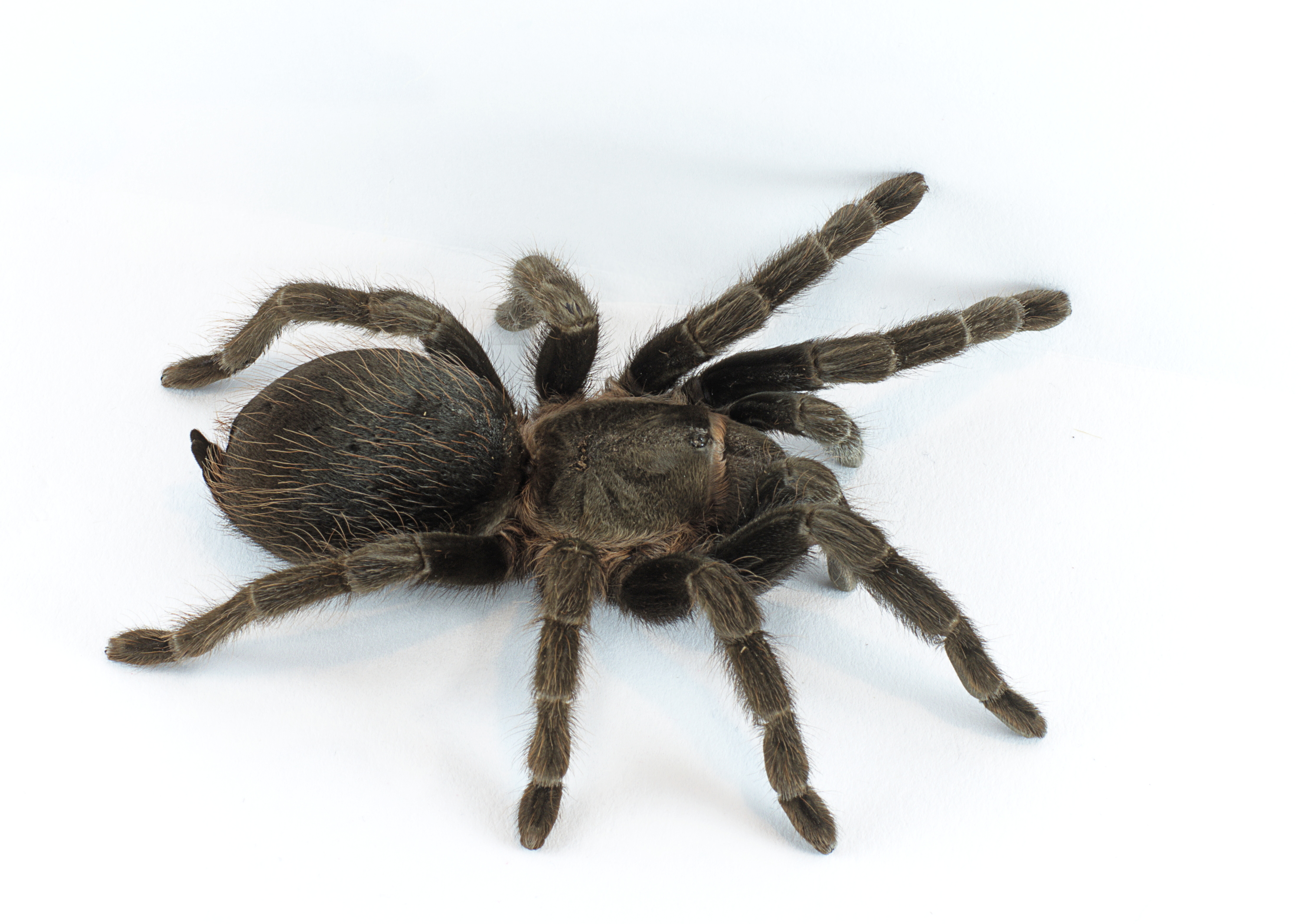 Brachypelma vagans (Mexican red rump tarantula), adult female